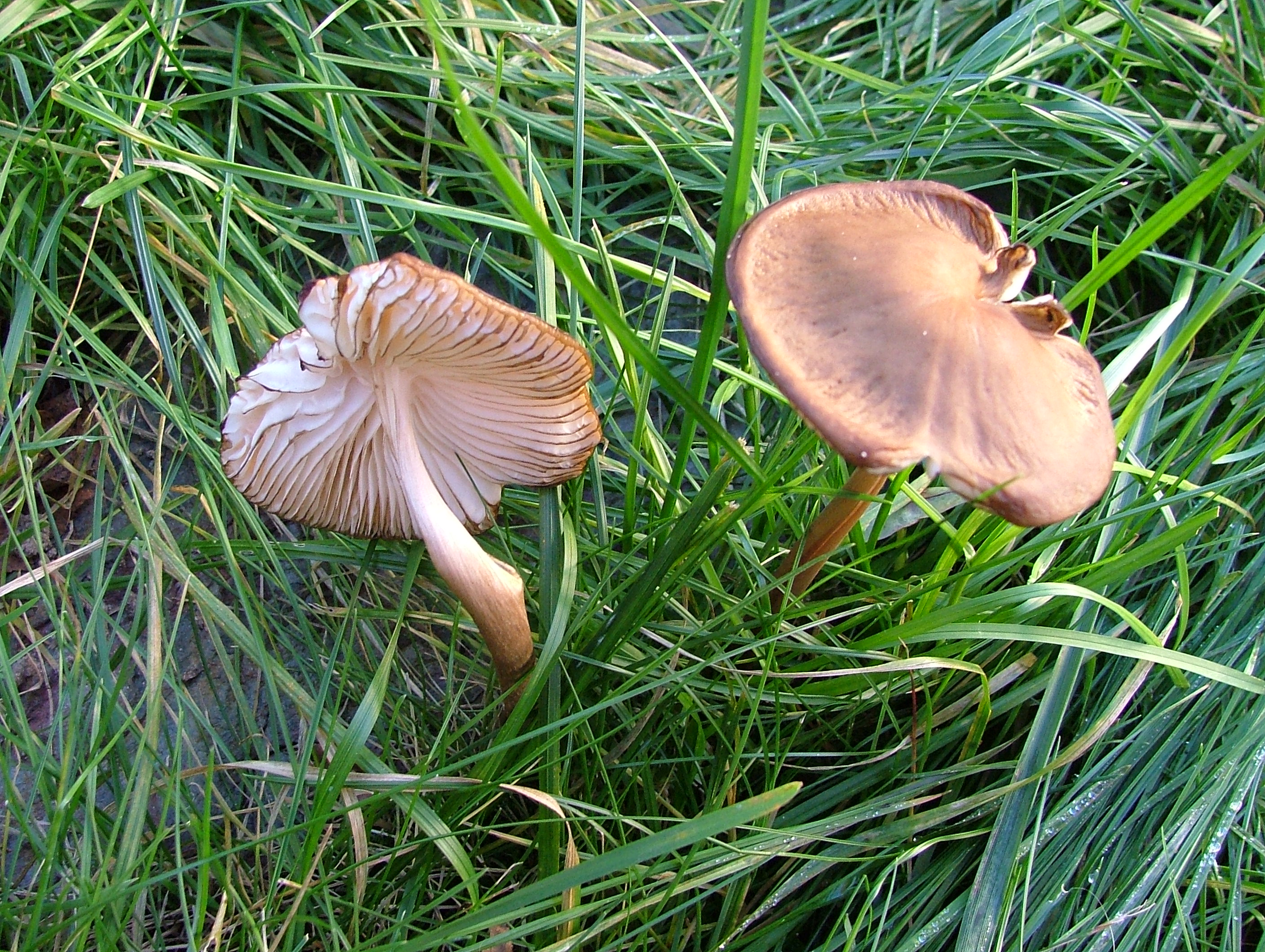 Marasmius oreadesː One of the marasmius species known as fairy ring mushroom